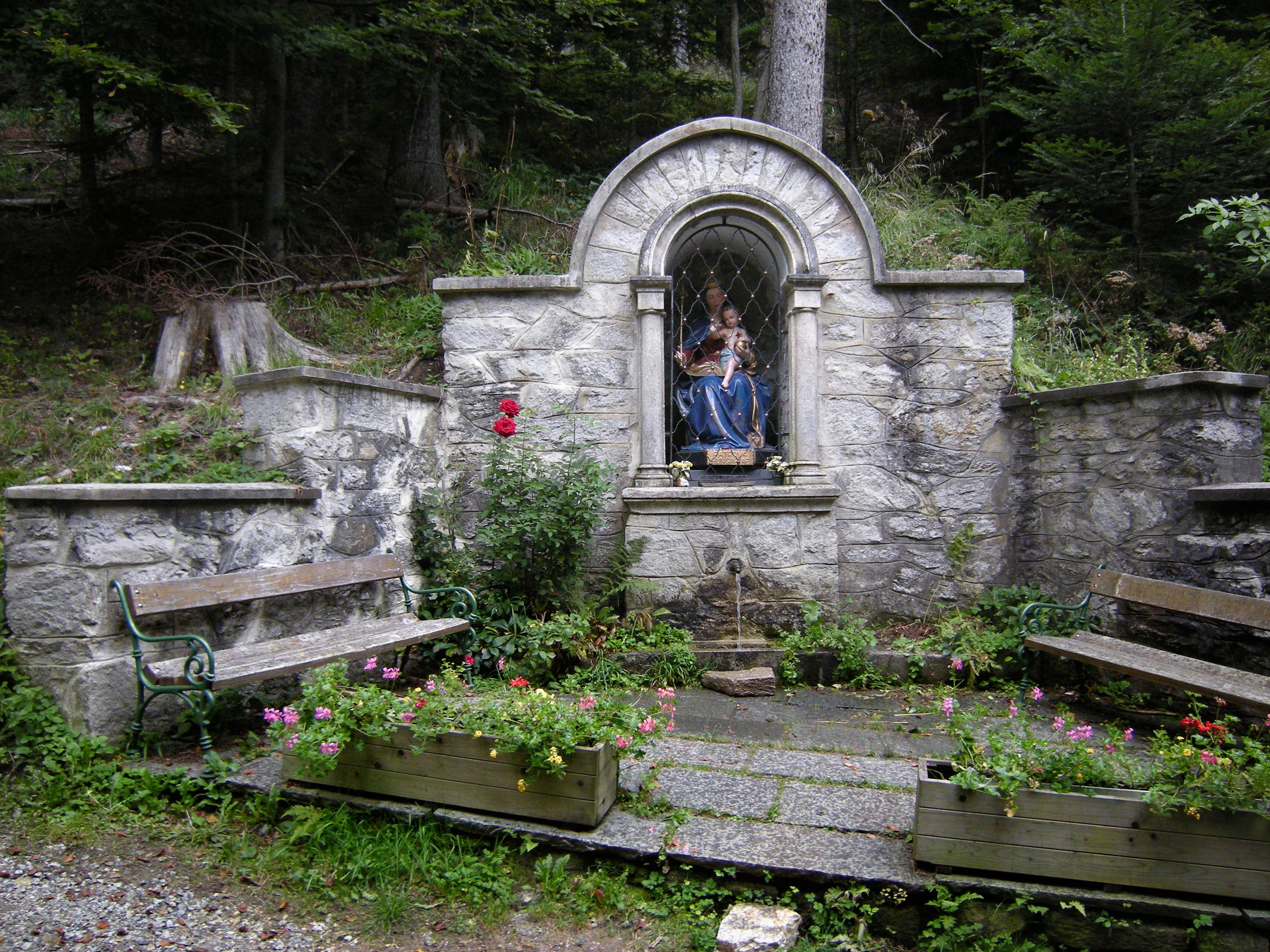 Sankt Radegund bei Graz views